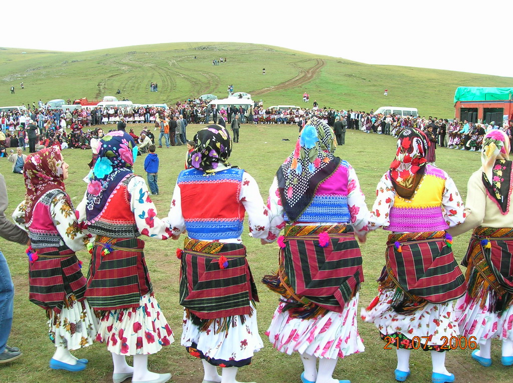 Kadirga Festival in West Trabzon, Chepni girls dancing